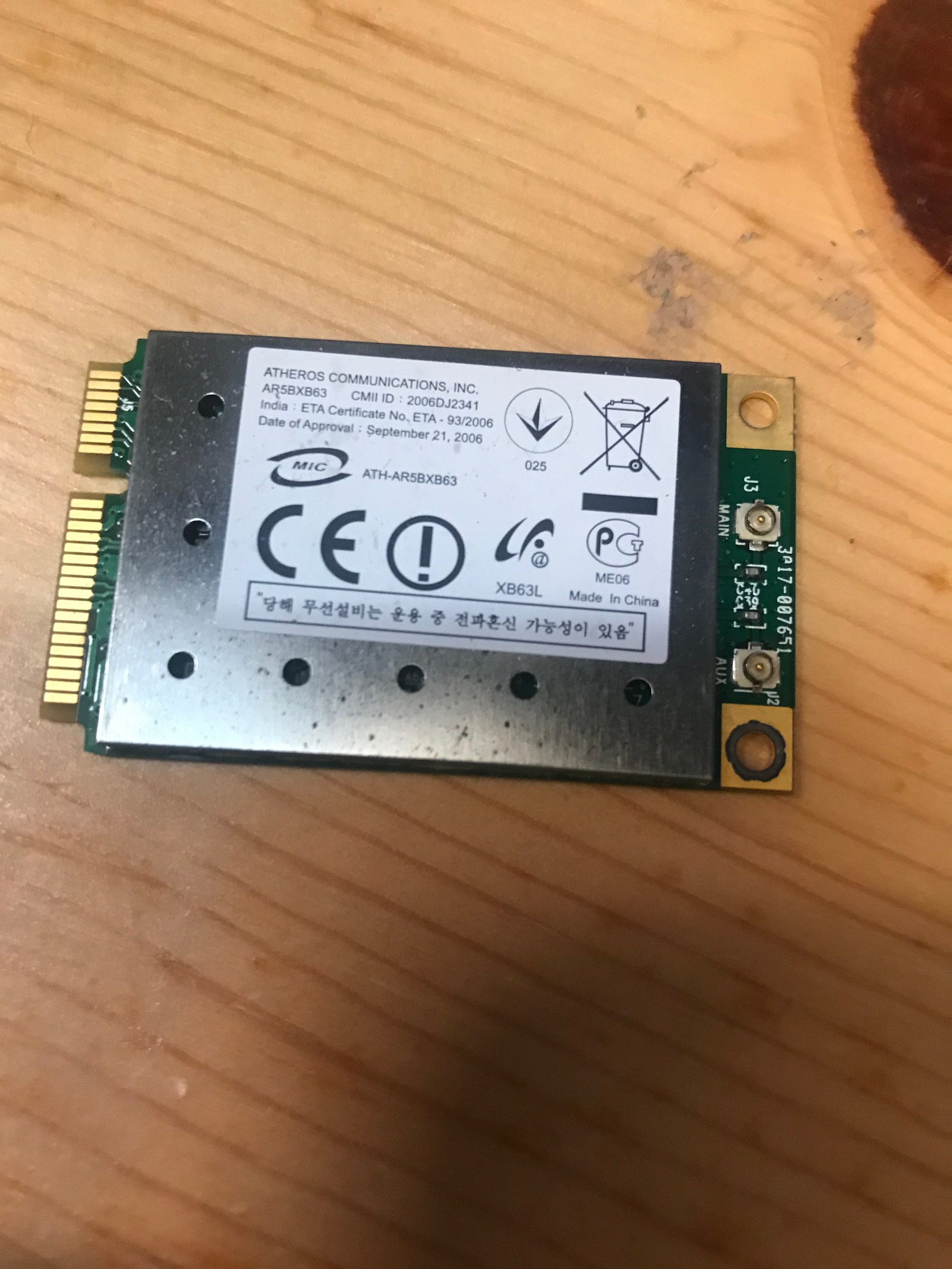 Atheros_AR5BXB63_Wireless_LAN_Card